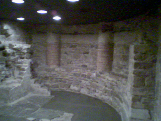 Abside of Santa Reparata Church, underground archeological church, Firenze, Italy